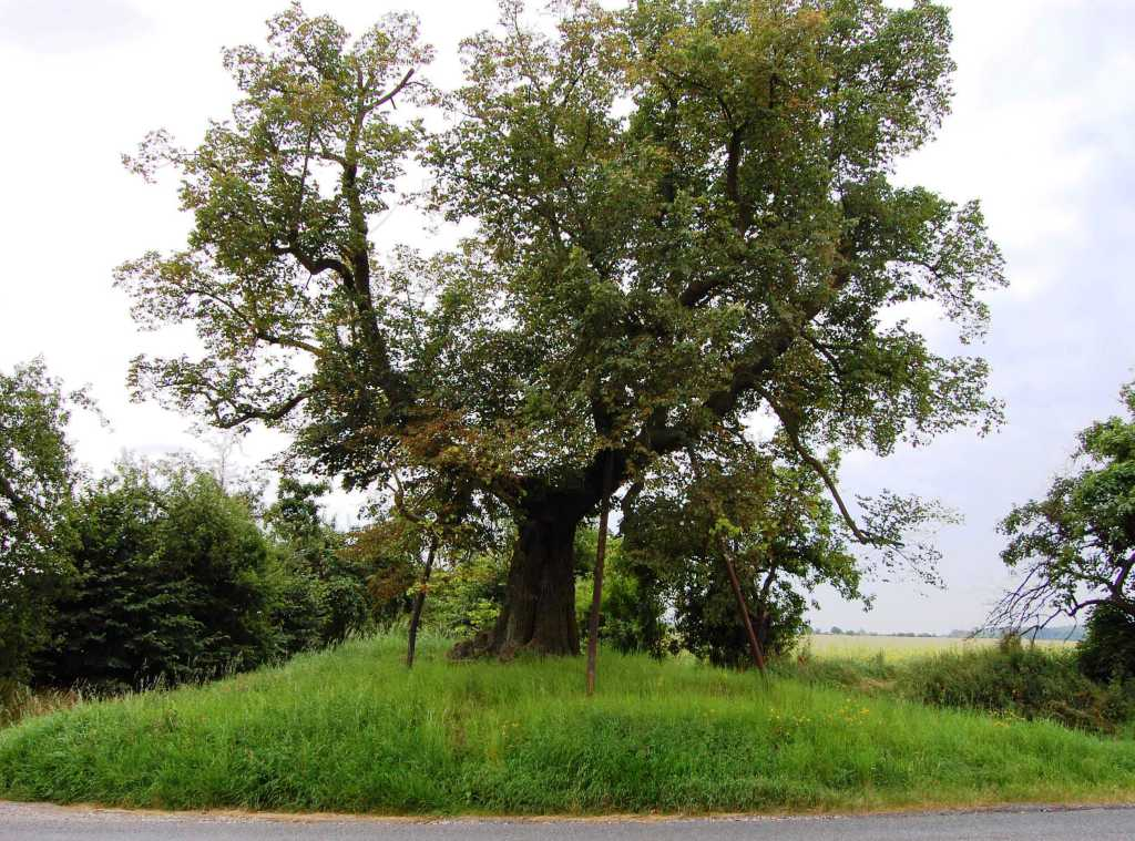 Drahelčice, old lime